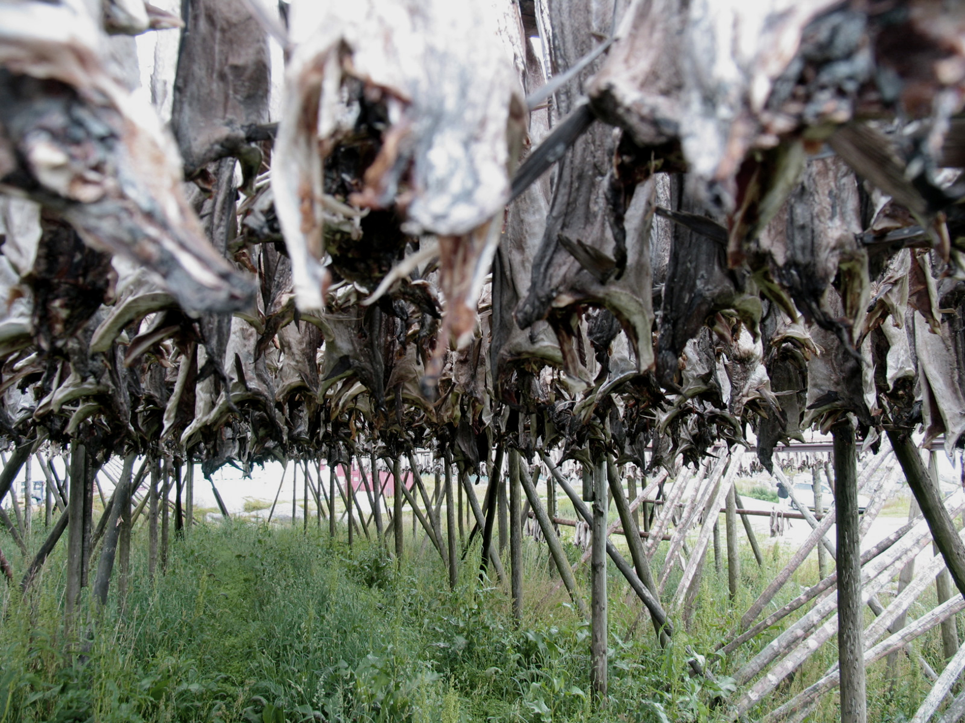 Traditional way of drying cod pieces, Lofoten, northern Norway.